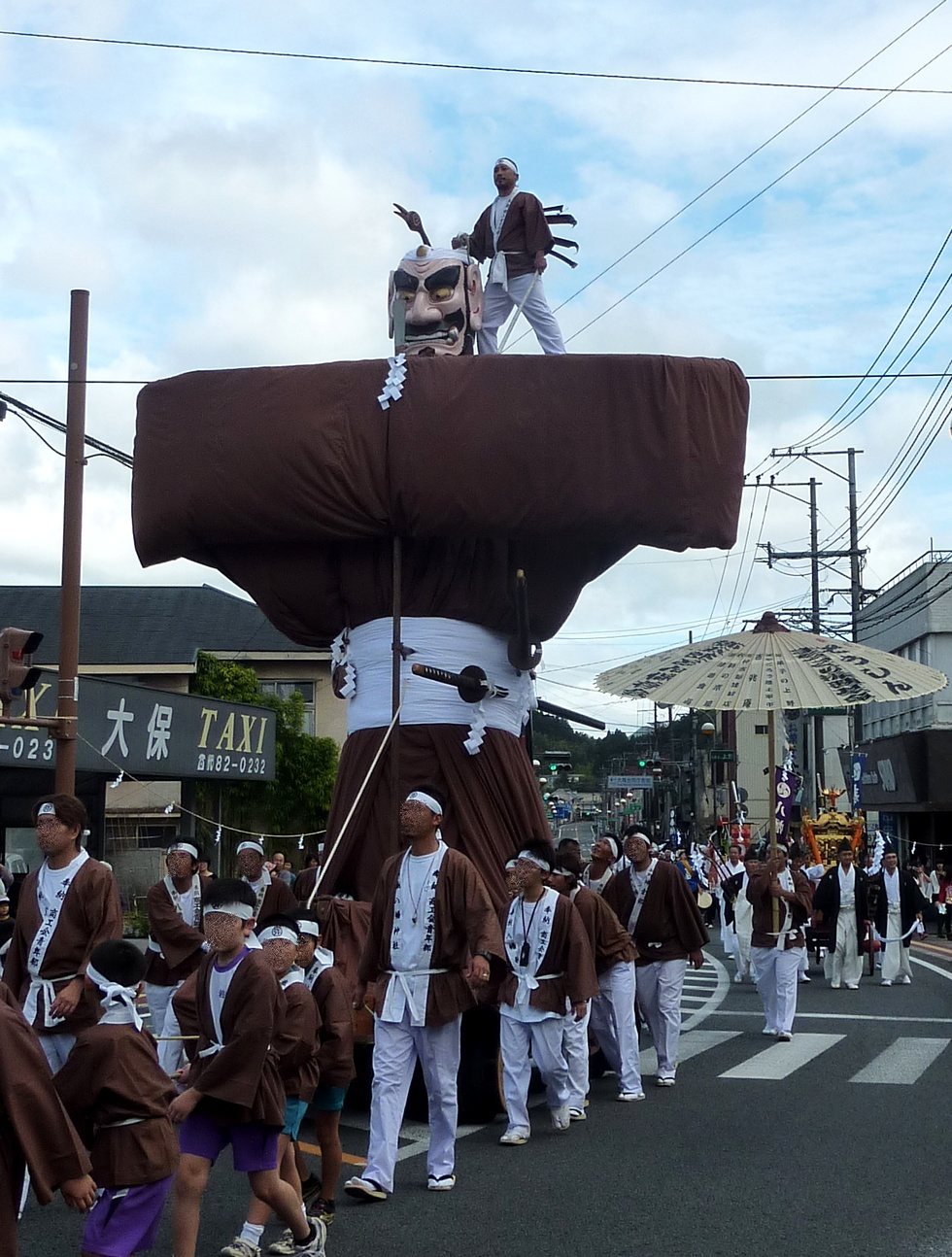 Yagoro-don (Soo City, Kagoshima, Japan)